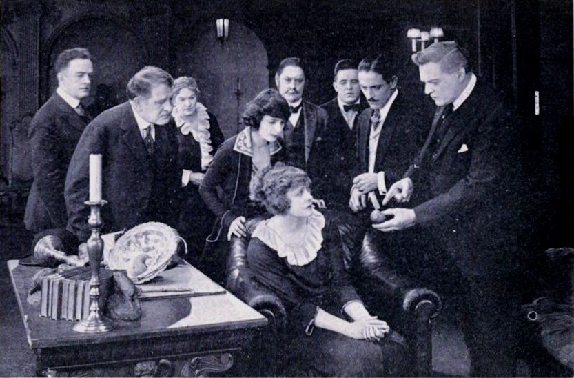 Still from the American mystery film The Teeth of the Tiger (1919) with Myrtle Stedman, David Powell, Marguerite Courtot, and several unidentified actors, facing page 120 of the Leblanc novel.